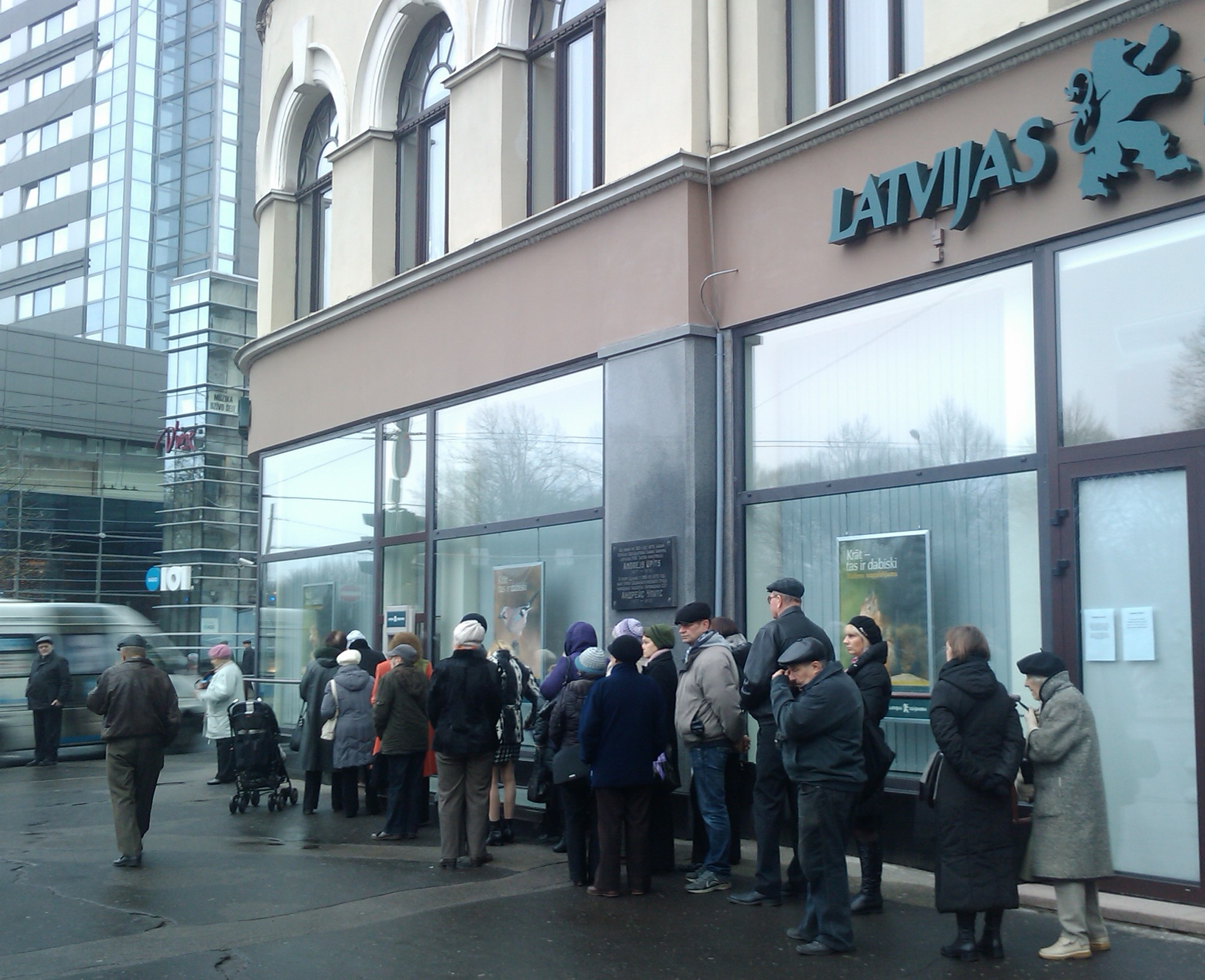 Line for ATM after it was announced that Latvijas Krājbanka is to be liquidated. After some days it was allowed to take LVL 50 (EUR 70) a day in ATMs.